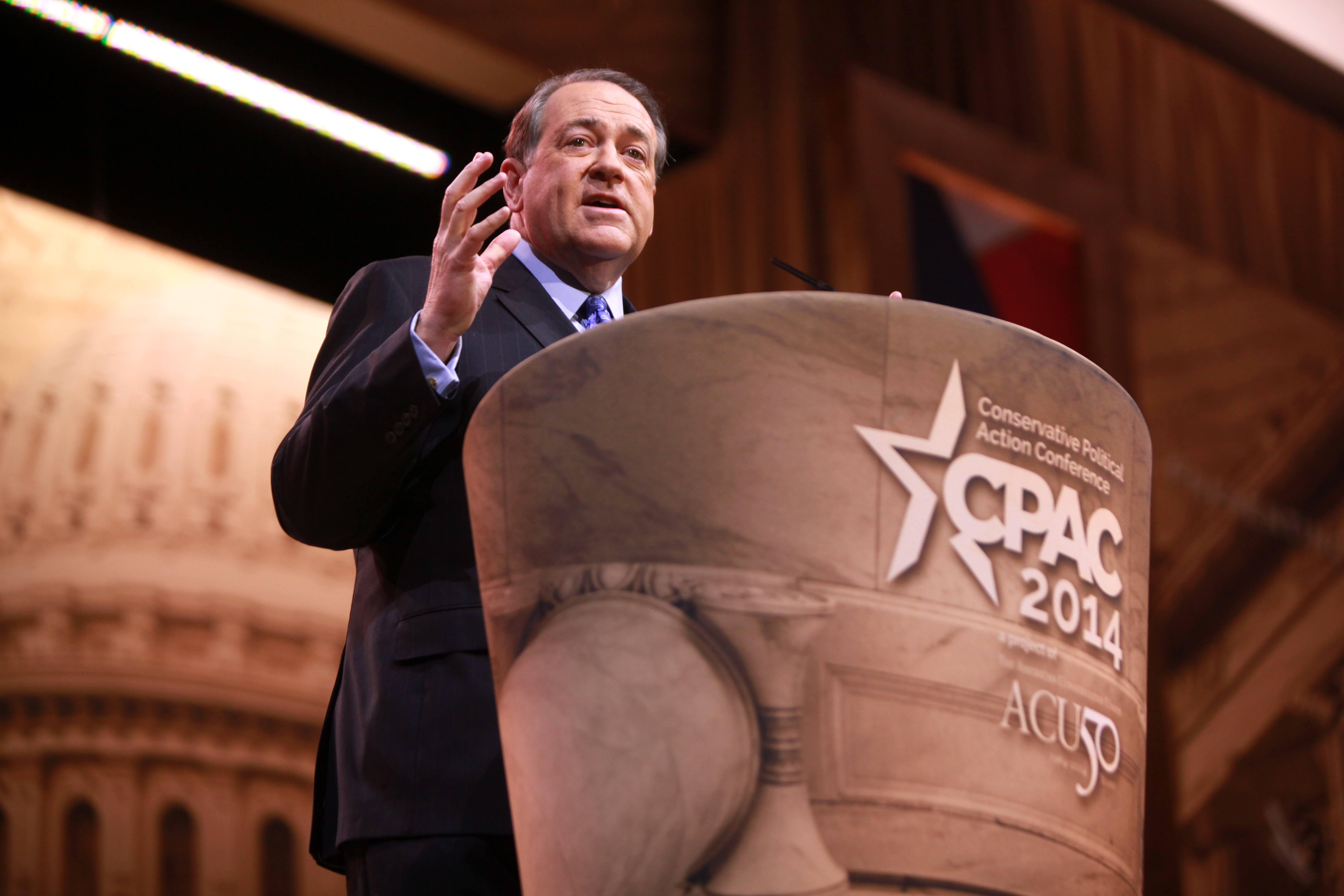 Mike Huckabee speaking at CPAC 2014 in Washington, DC.